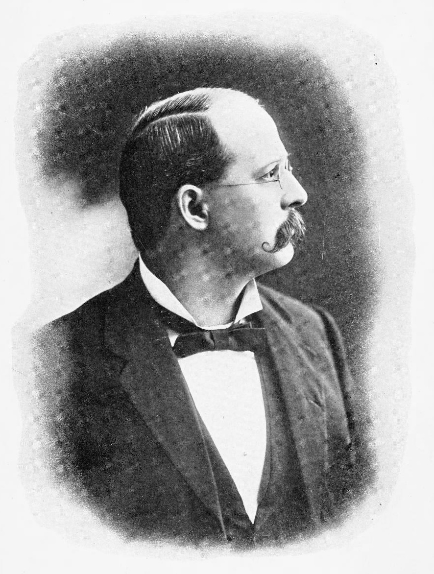 Frederic Webster Goding, American diplomat and scientist